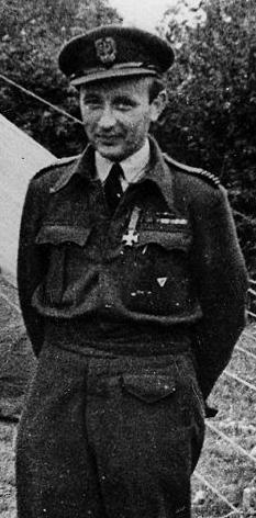 Polish pilot Stanisław Skalski.